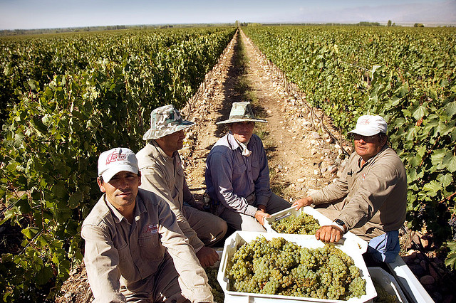 Wine grape harvest in Argentina